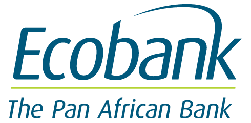 Ecobank English Logo